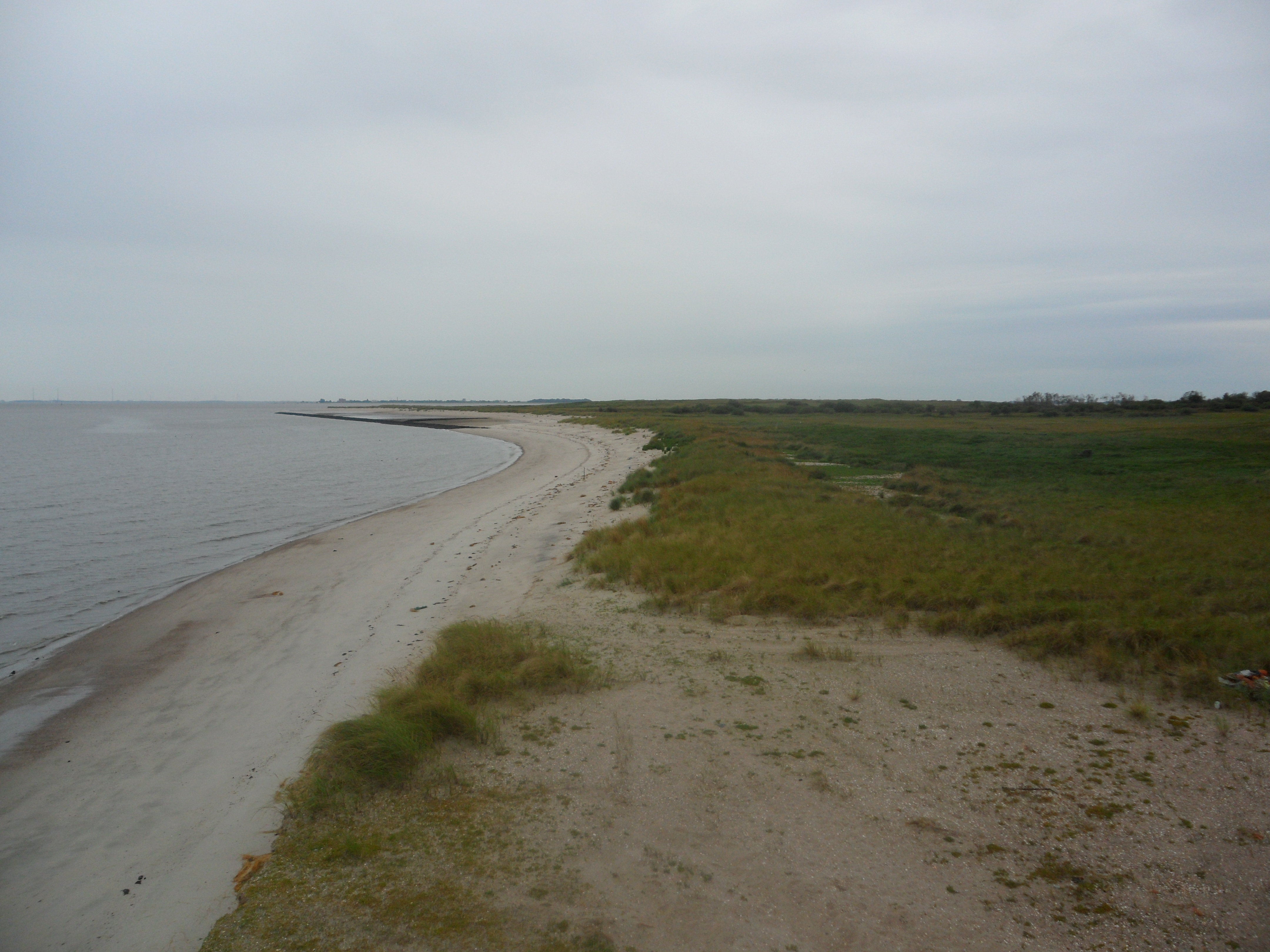 View from the radar tower of the Wasser- und Schifffahrtsamt Wilhelmshaven on island Minsener Oog to the south